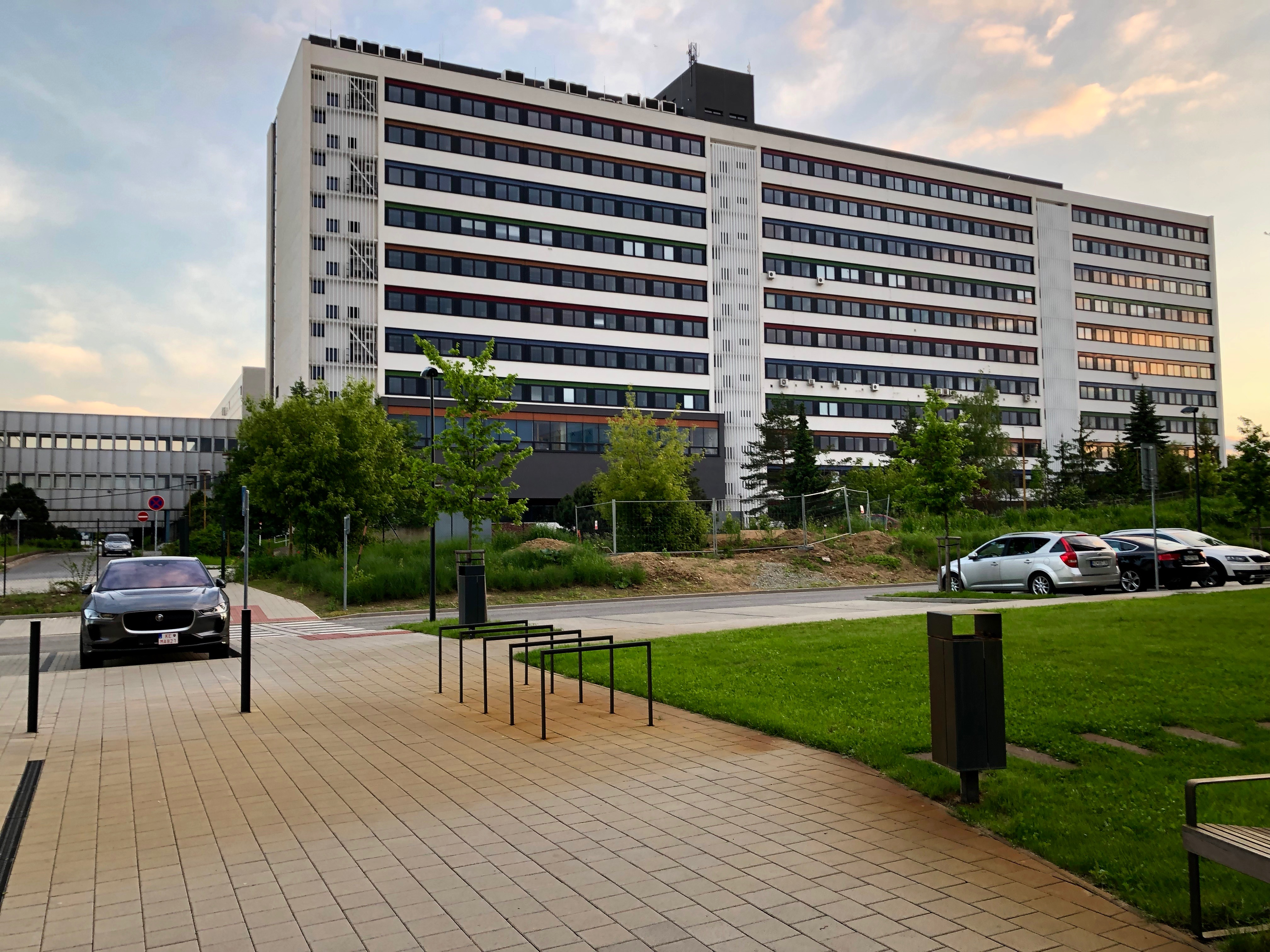 Faculty of medicine of Pavol Jozef Šafárik University in Košice, Slovakia